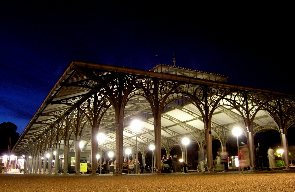 The open, covered waiting area at Klampenborg Station in Copenhagen, Denmark